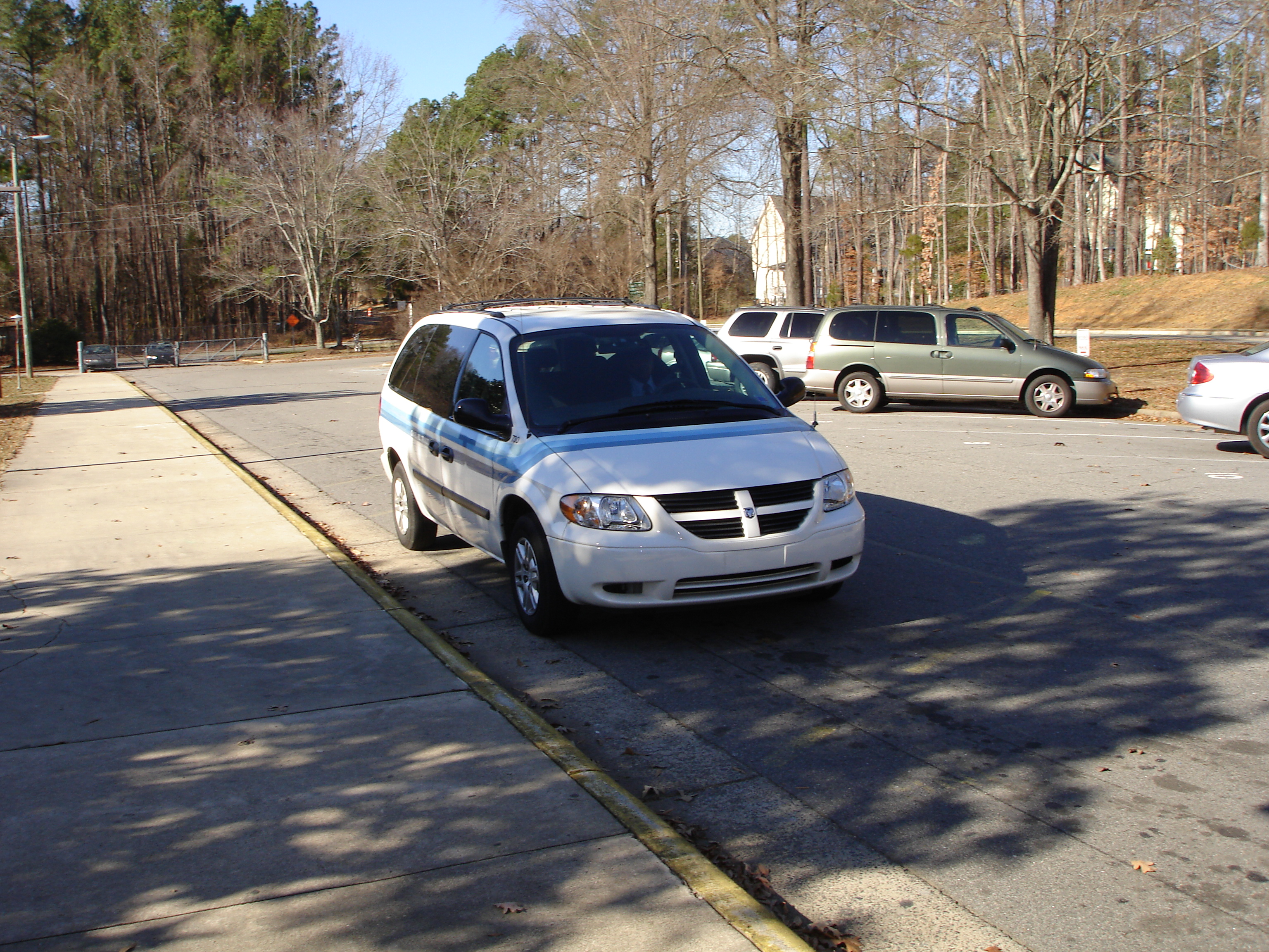 Chapel Hill Transit "Shared Ride" Dodge Caravan, Chapel Hill-Carrboro, North Carolina.